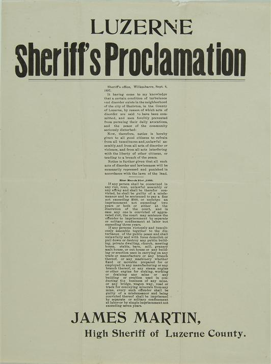 Proclamation of James L. Martin, Sheriff, Luzerne County, Pennsylvania, prohibiting rioting or "tumult" or the interference of the peaceful operation of any mine or associated building in the Luzerne County, issued prior to the Lattimer Massacre of September 10, 1897.